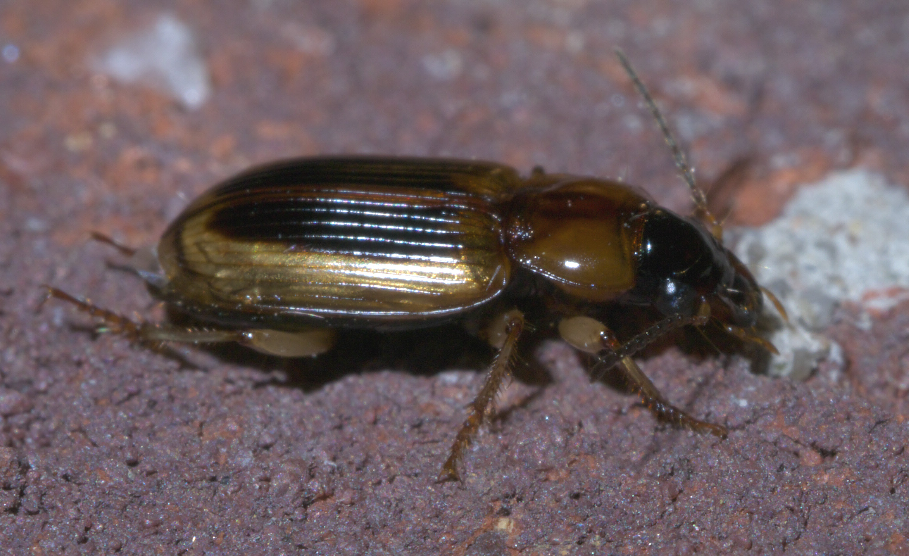 Stenolophus comma, Genus: Seedcorn Beetles, Size: 7.5 - 8 mm, ID Confidence: 98